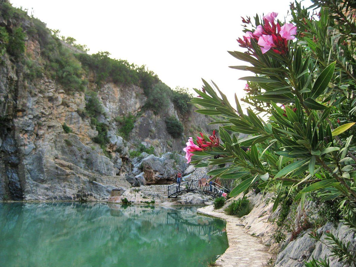 Pool in the river Sellent close to Bolbaite, Canal de Navarrés, Valencian Country, Spain.